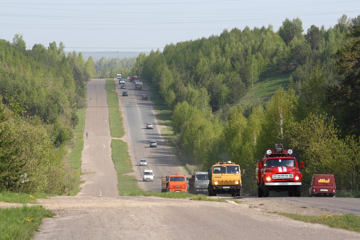 Street near Tomsk.